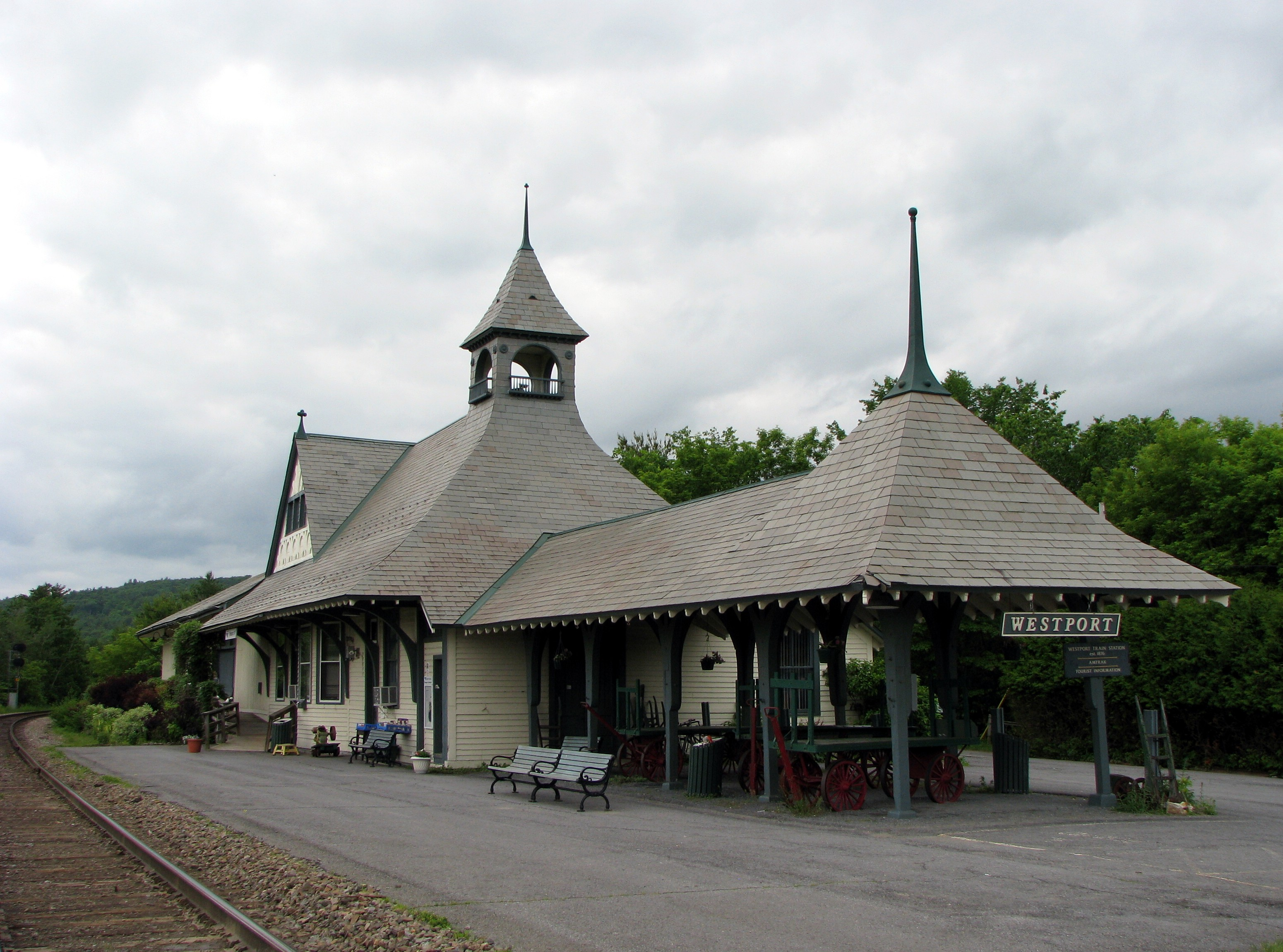 Delaware & Hudson Railroad Depot, Westport, New York. Built 1876.